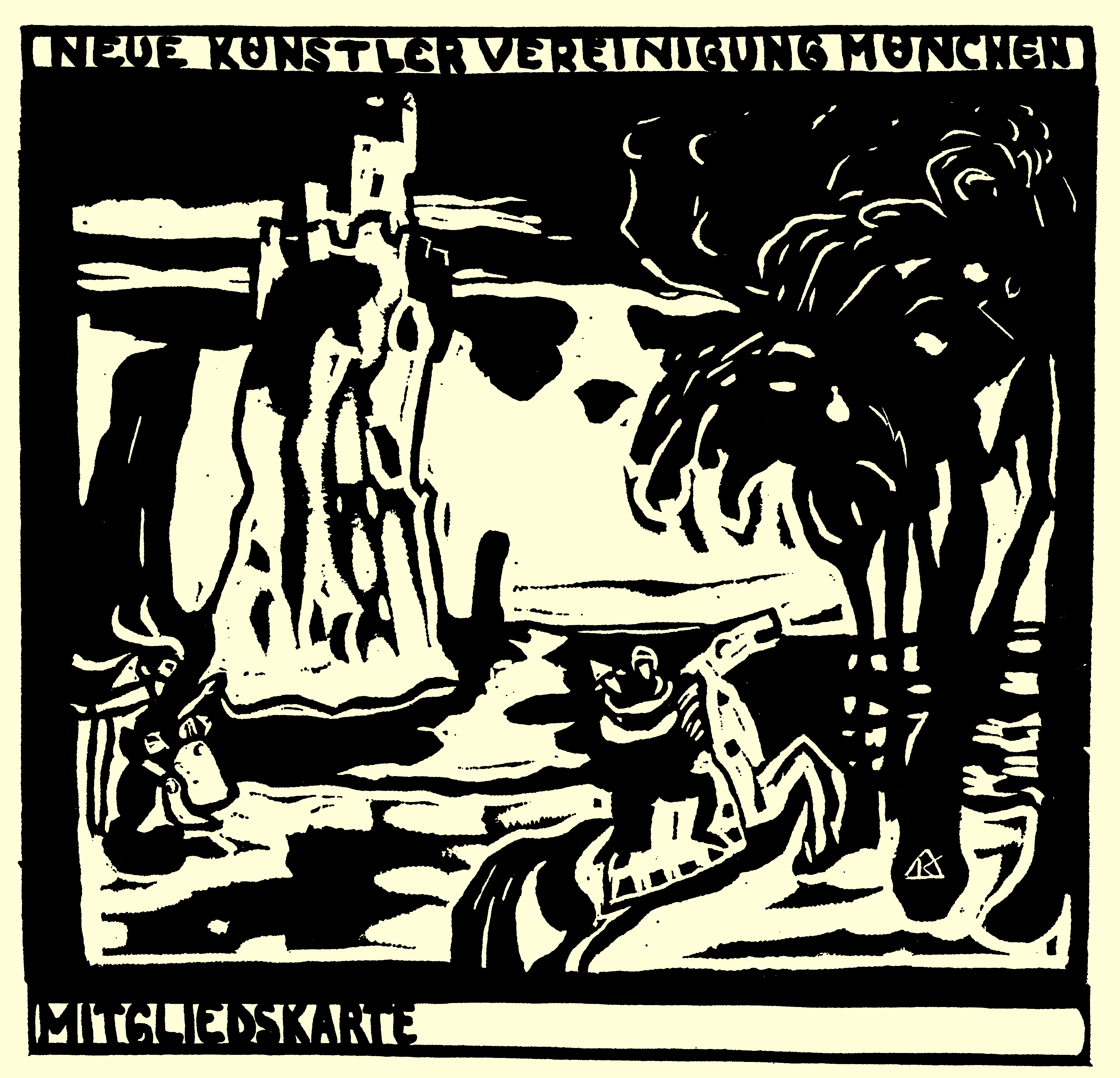 „Rock“ (Membership Card for the New Artists' Association Munich). Date:(1909) Medium: Woodcut. Dimensions: composition: 5 9/16 x 5 11/16" (14.2 x 14.5 cm); sheet: 6 5/16 x 6 1/2" (16 x 16.5 cm); mount: 9 1/2 x 9 7/16" (24.2 x 23.9 cm). Paper: Cream, smooth, wove (mounted on black, smooth, wove paper). Publisher: Neue Künstlervereinigung München. Printer: F. Bruckmann A.G., Munich. Edition:1909 edition: 100, plus 3 known proofs and 6 trial proofs; 1912 edition in the periodical Der Sturm, vol. 3, no. 129; Posthumous 1982 edition in the book: Hans Wille: Adolf Erbslöh, Recklinghausen.